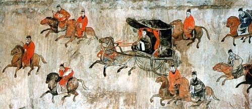 The Dahuting Tomb (Chinese: 打虎亭汉墓, Pinyin: Dahuting Han mu; Wade-Giles: Tahut'ing Han mu) of the late Eastern Han Dynasty (25-220 AD), located in Zhengzhou, Henan province, China, was excavated in 1960-1961 and contains vault-arched burial chambers decorated with murals showing scenes of daily life. For further information, see the Baidu article (in Chinese): 打虎亭汉墓. Click here for more pictures and a step-by-step walkthrough of the tomb, from the outside, down a stairwell, and through the vaulted burial chambers.